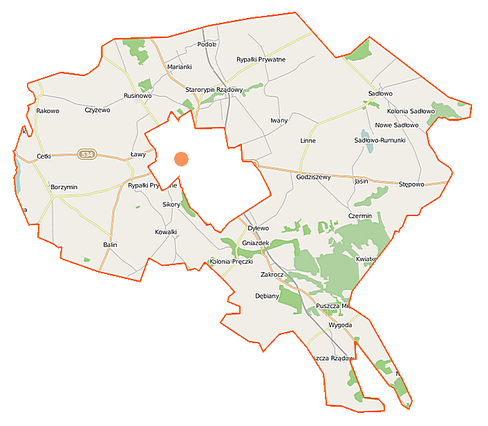 Map of Gmina Rypin, Poland This map of Rypin (gmina wiejska) was created from OpenStreetMap project data, collected by the community. This map may be incomplete, and may contain errors. Don't rely solely on it for navigation. Border coordinates53.120019.3054←↕→19.575952.9780